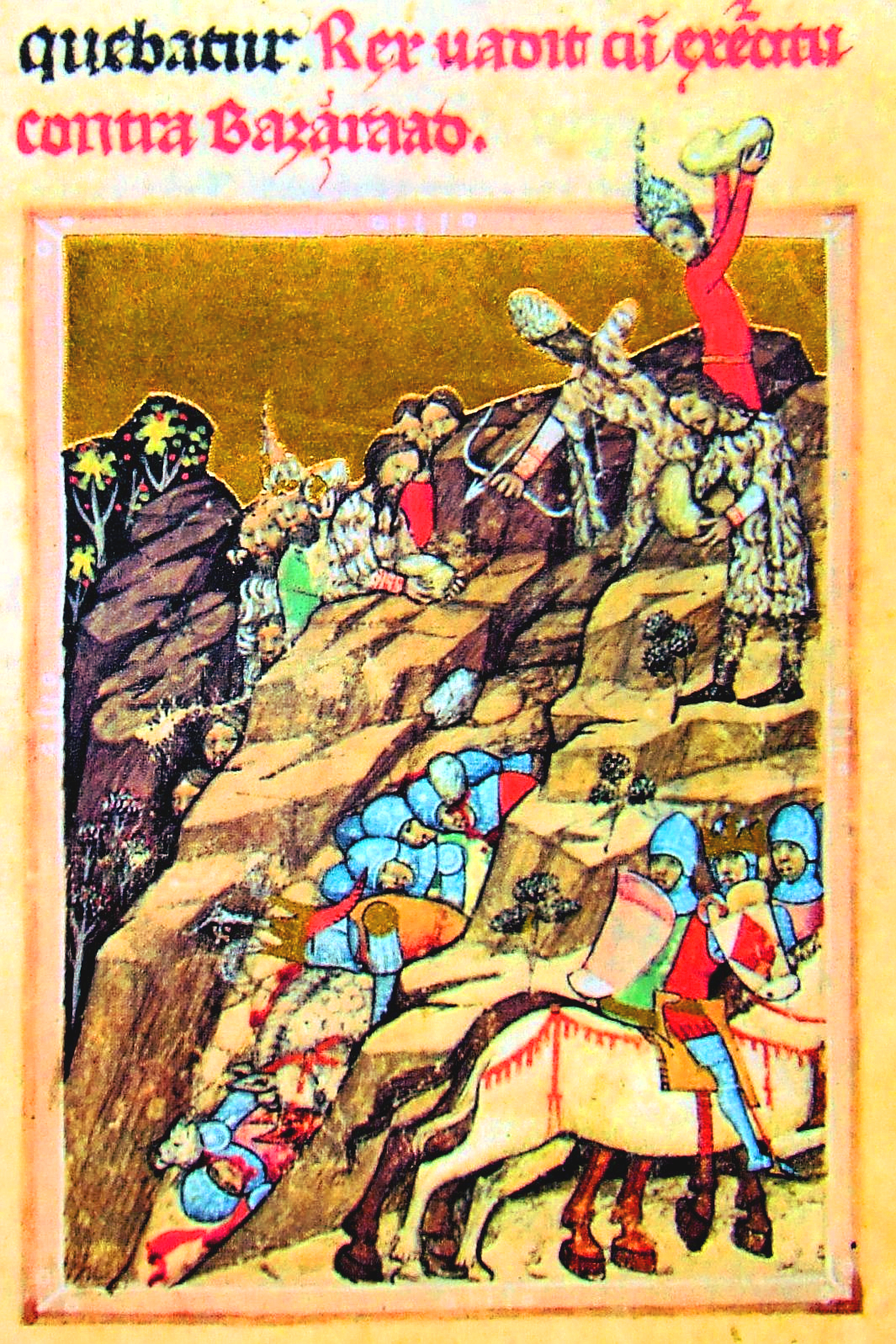 The Battle of Posada (November 9-12, 1330) in the Chronicon Pictum. The Basarab I of Wallachia's army ambushed Charles Robert of Anjou, king of Hungary and his 30,000-strong invading army. The Vlach (Romanian) warriors rolled down rocks over the cliff edges in a place where the Hungarian mounted knights could not escape from them nor climb the heights to dislodge the attackers.